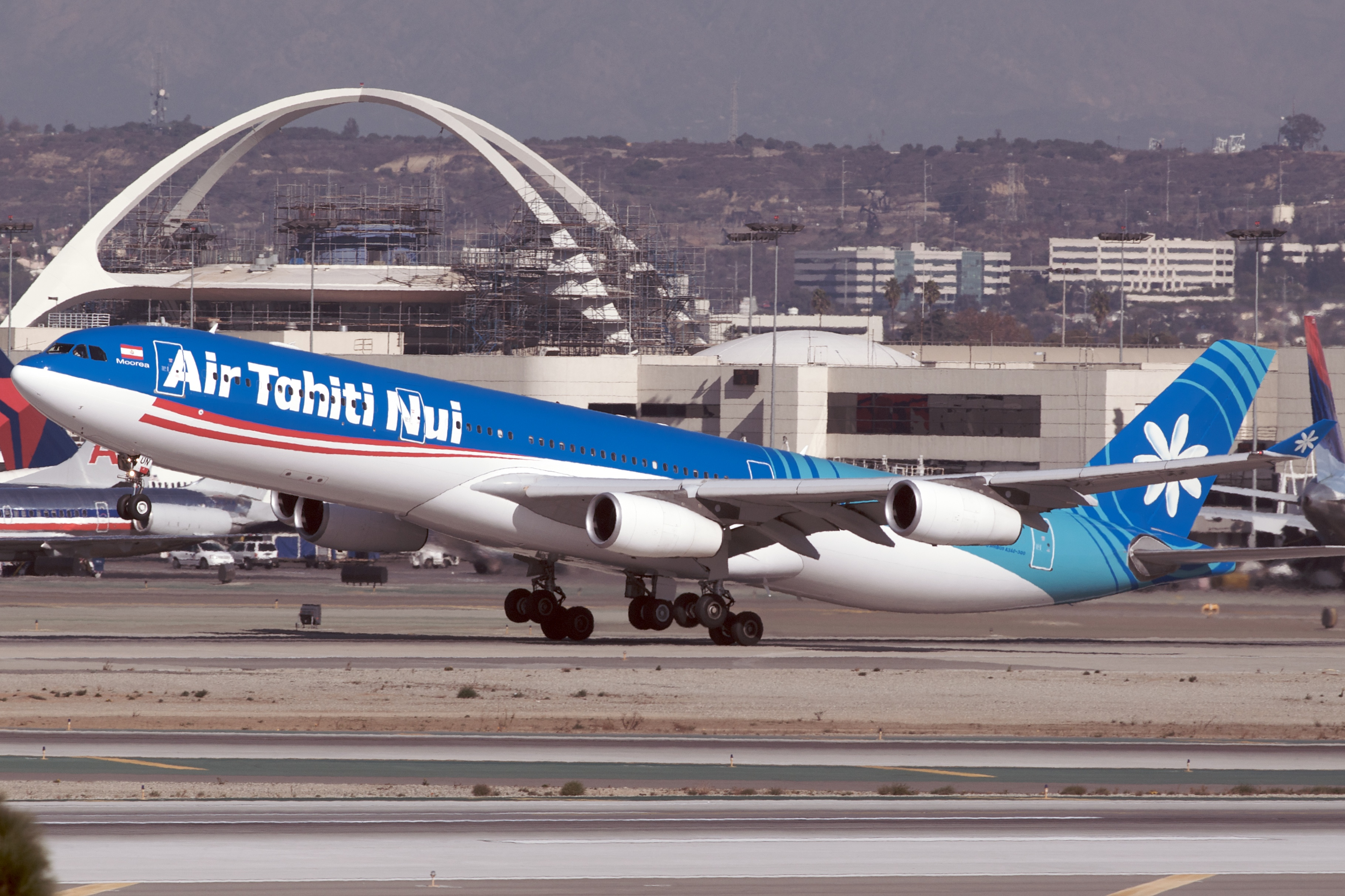 Air Tahiti Nui A340-300 F-OSUN departing LAX